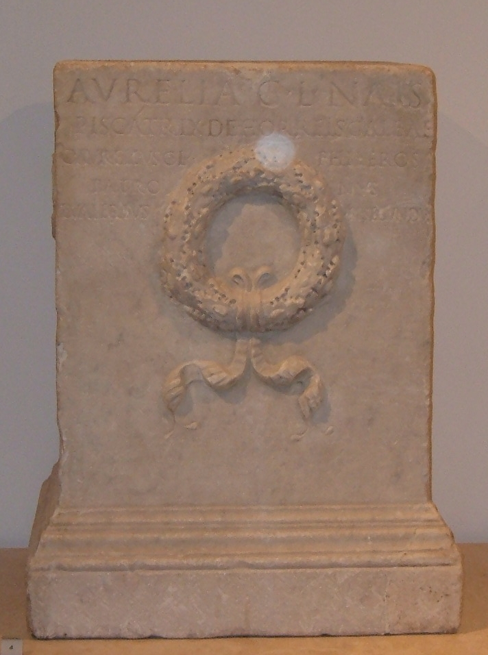 Sepulchral inscription for Aurelia Nais, Freedwoman and Fishmonger at the Grannaries of Galba.